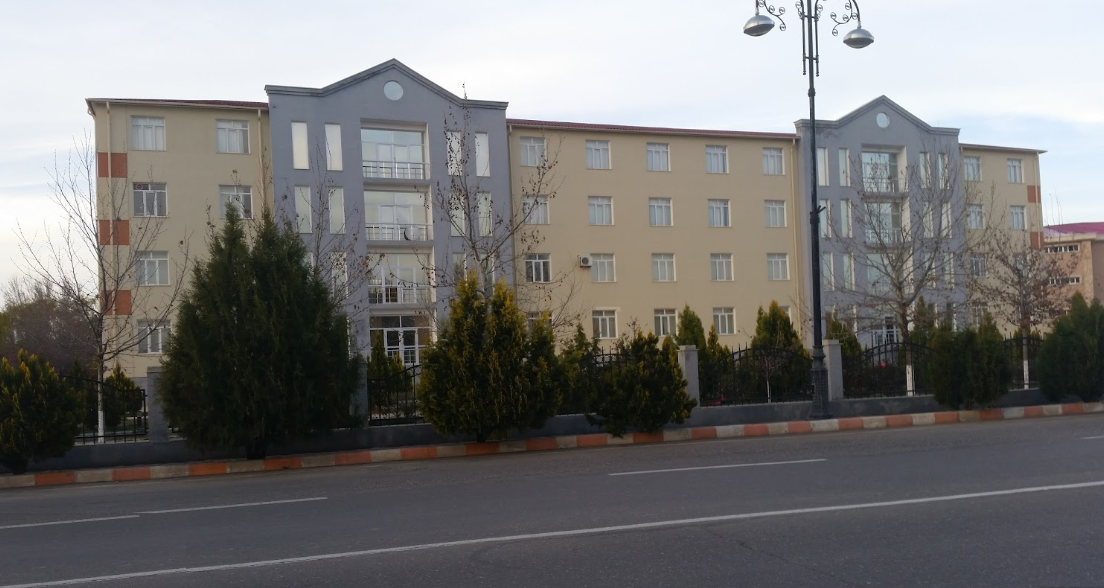 Sharur AZ6800, Azerbaijan